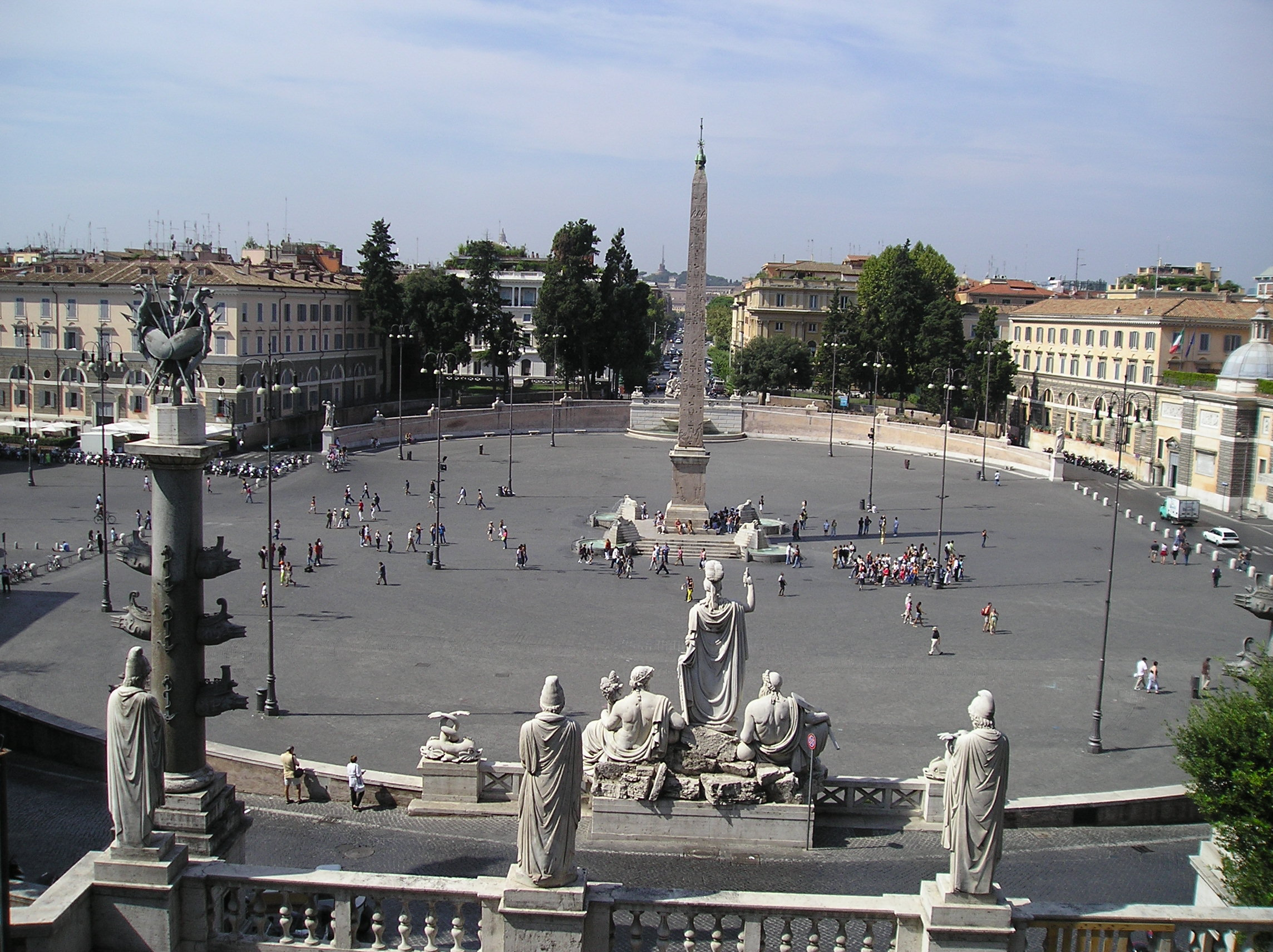 Piazza del Popolo